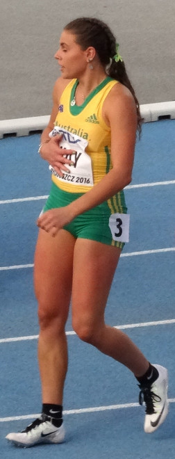 2016 IAAF World U20 Championships in Bydgoszcz, 4x100m relay women final